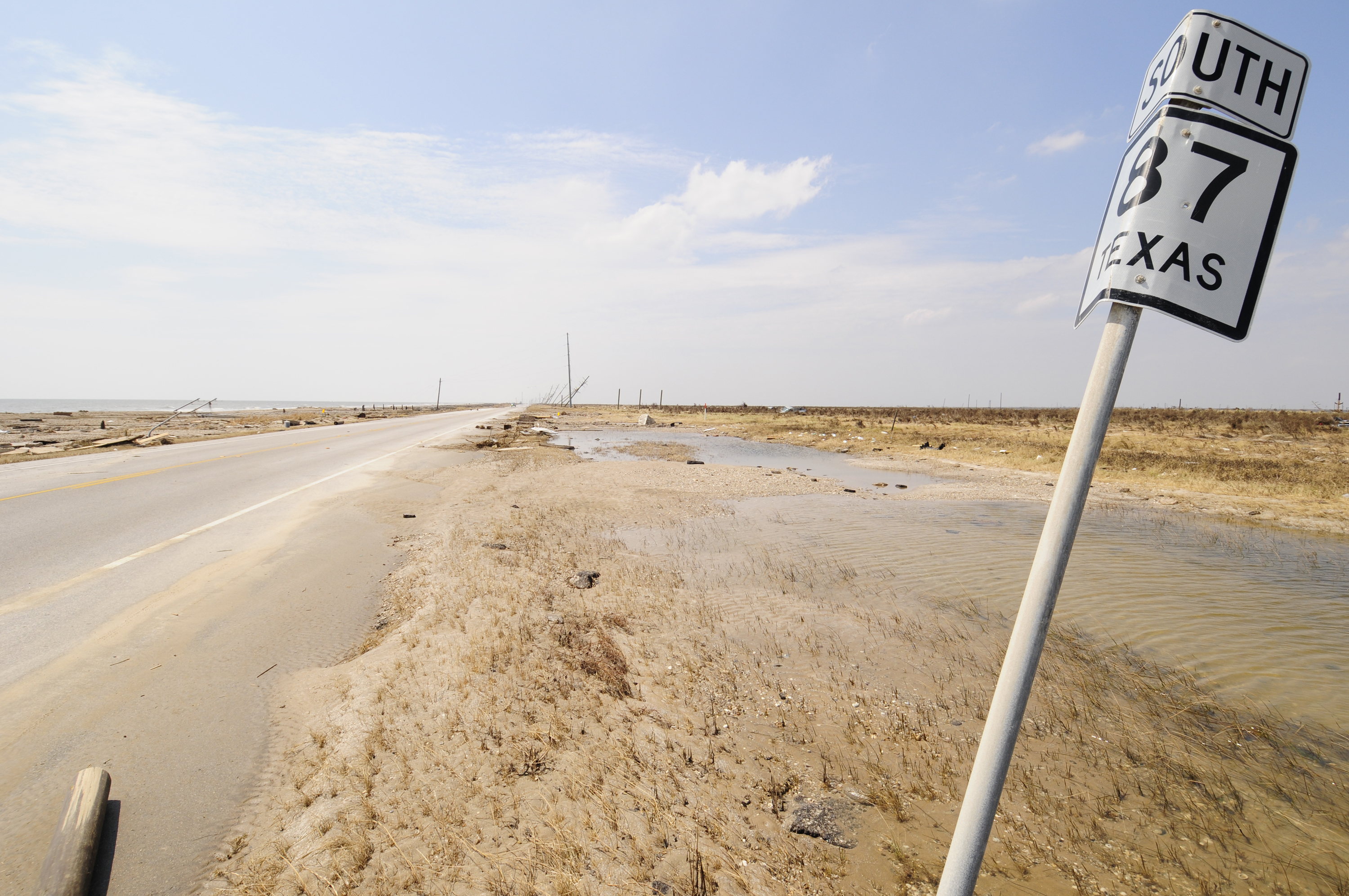 High Island, TX, September 18, 2008 -- The shoreline looking south towards Gilchrist, Texas along the Gulf of Mexico where beachfront houses once dotted the landscape. Hurricane Ike left little trace of their existence. Mike Moore/FEMA